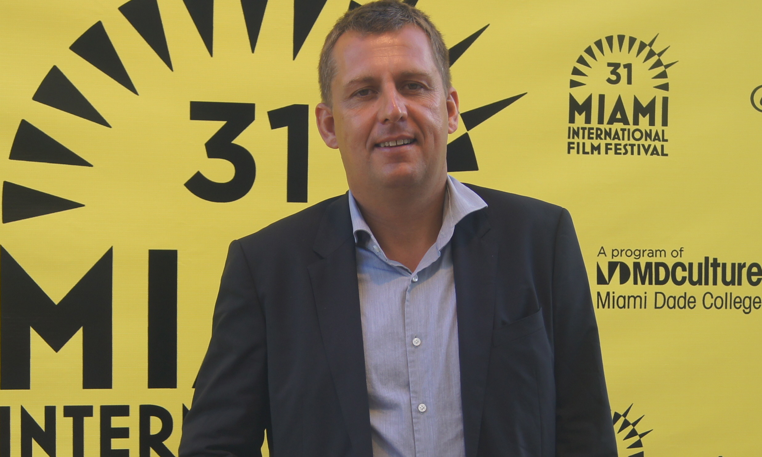 Screenwriter-Filmdirector Hannes Stoehr at the MIami Filmfestival